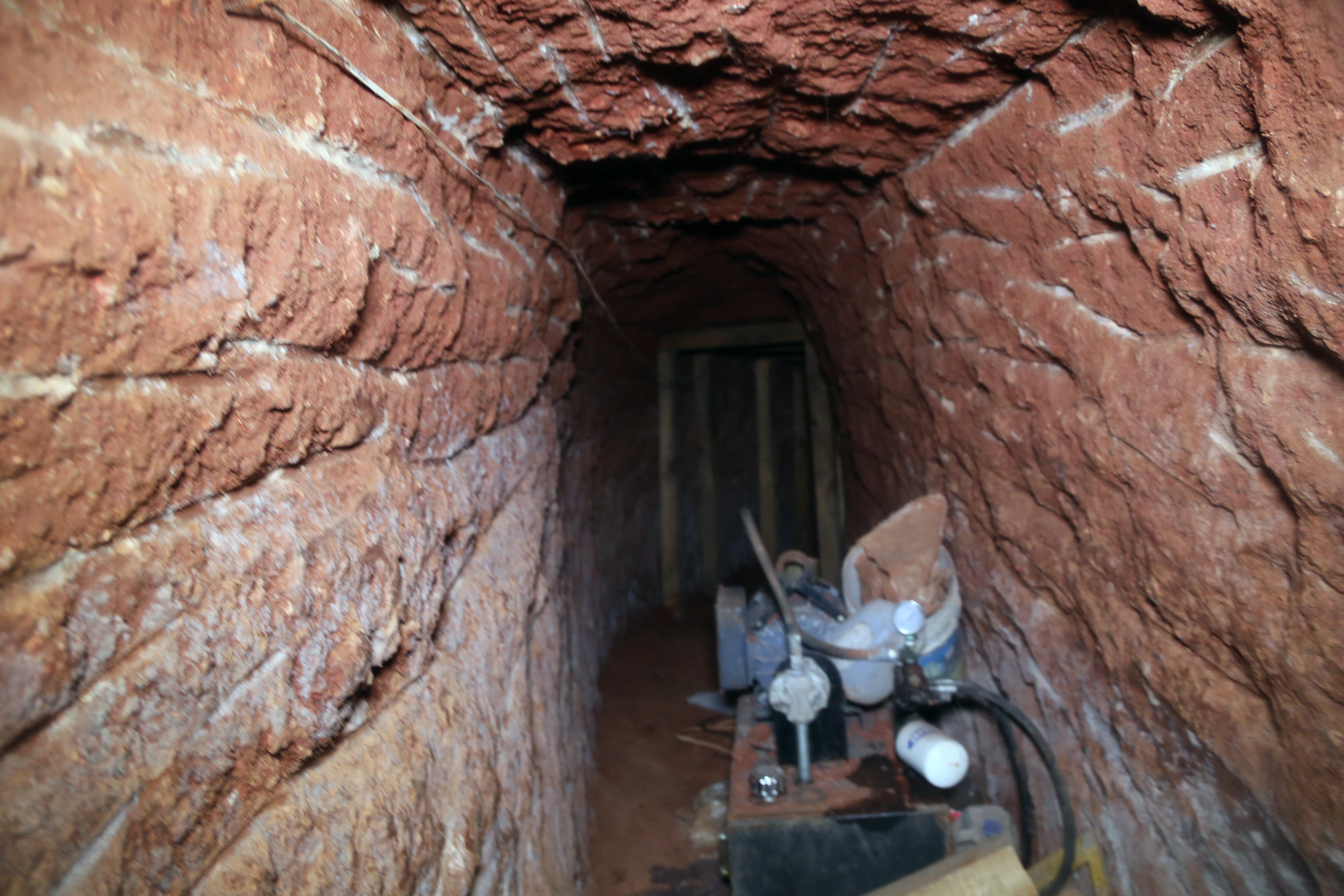 022415: NACO, Ariz. – Federal agents continue to investigate the discovery of a sophisticated cross-border drug tunnel uncovered overnight, following a traffic stop by local police that yielded more than two tons of marijuana. Photo by: Daniel Barrios